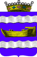 Coat of arms of Nyland Governorate